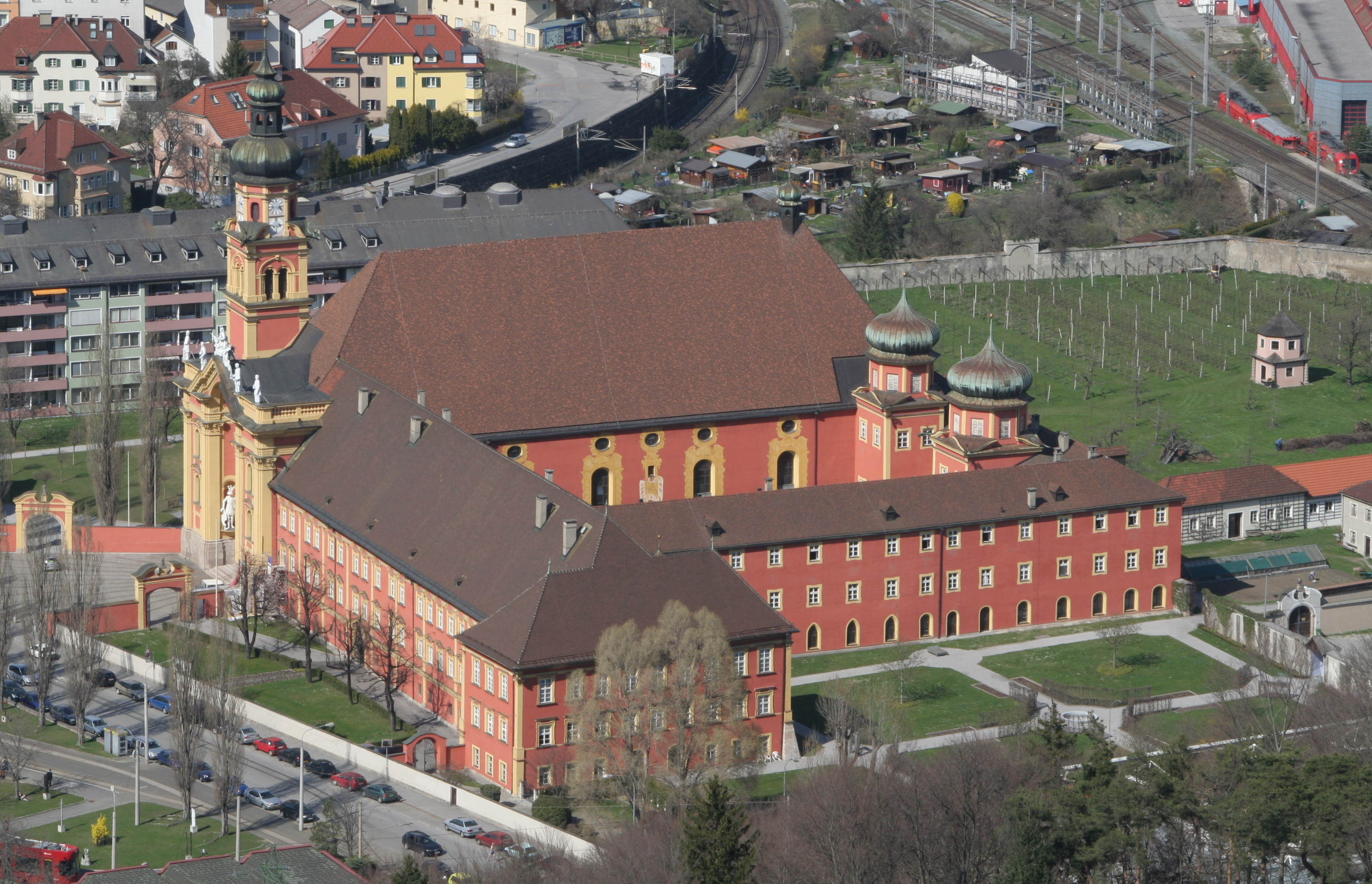 Stift Wilten seen from Berg Isel